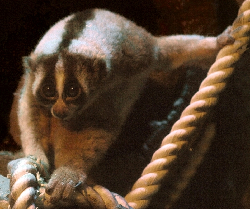 Javan Slow Loris (Nycticebus javanicus) at Kobe Oji Zoo, Japan other photos